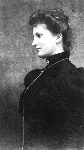 Alma Mahler-Werfel née Schindler (1899 or earlier)